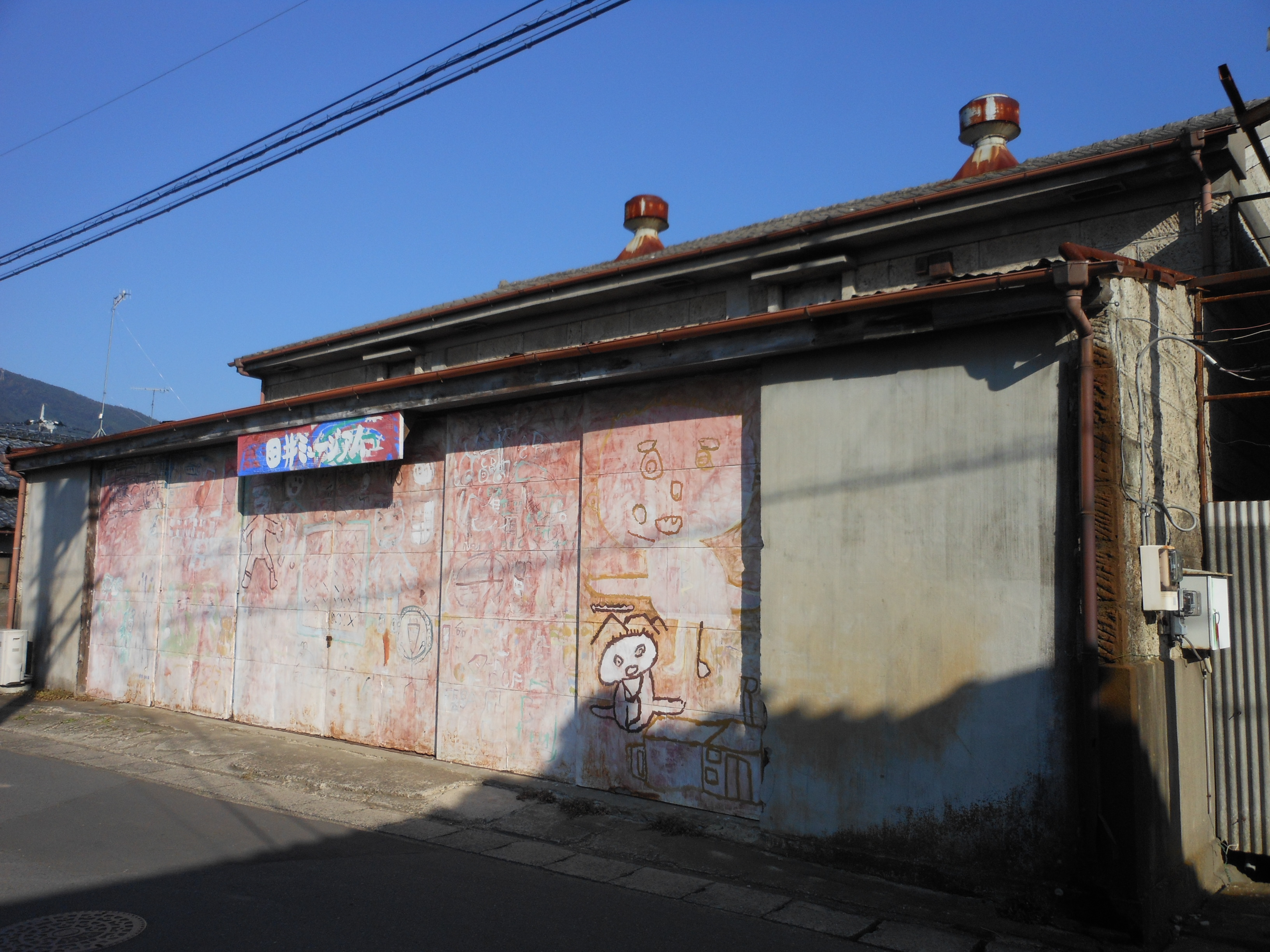 This is the Tai museum, which is in Tsukuba, Ibaraki, Japan.